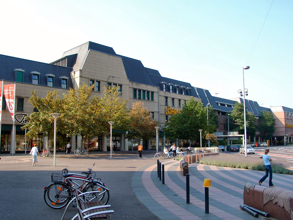 Shopping mall Löhr-Center in Koblenz